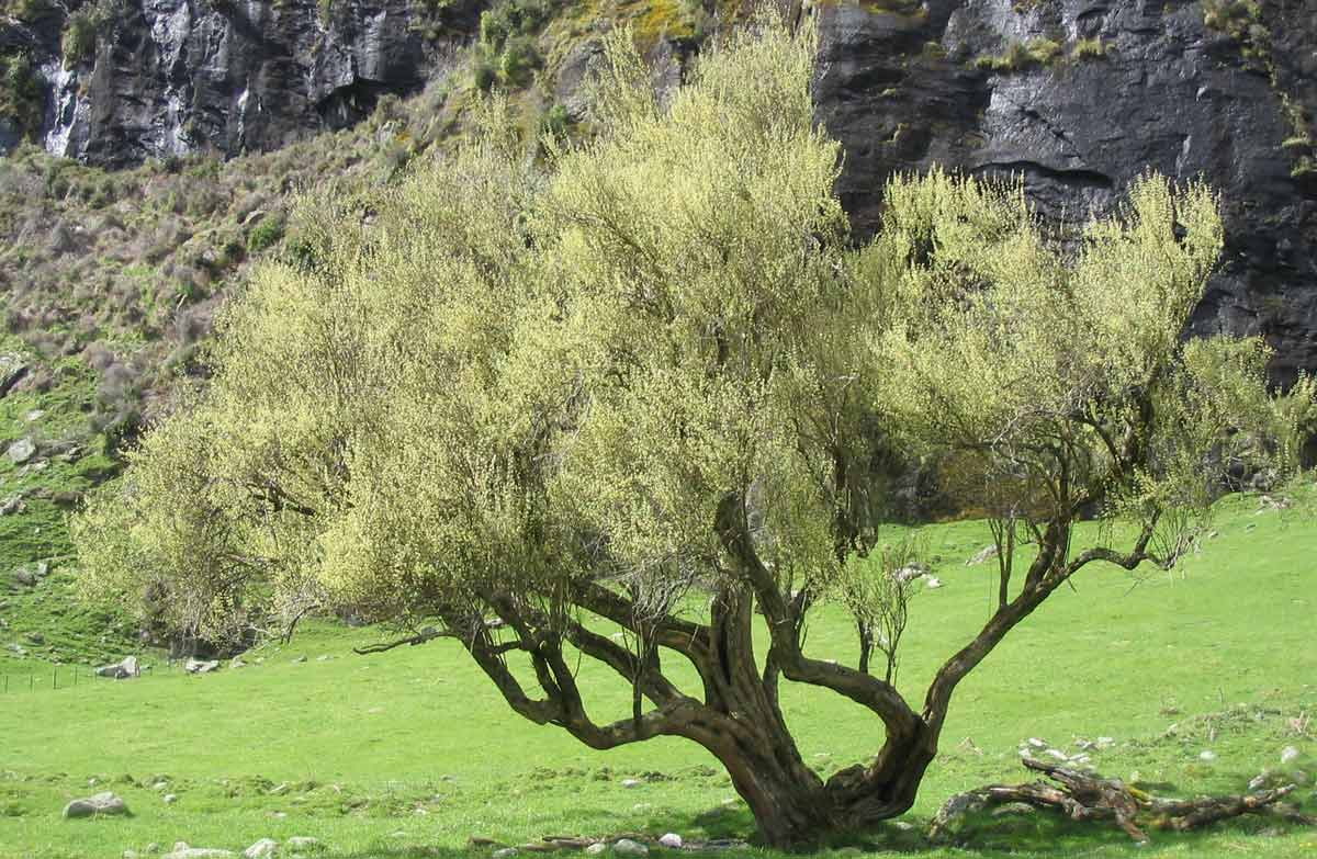 Olearia hectorii, Hector's tree daisy. Image by John Barkla, Department of Conservation (New Zealand).